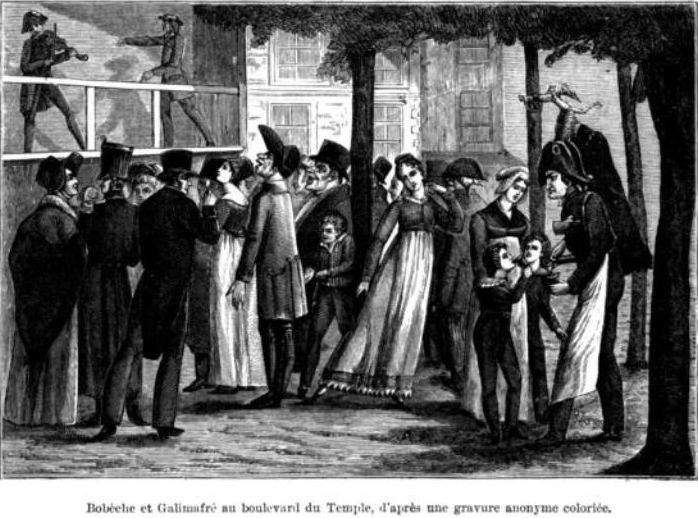 Bobèche and Galimafré at the Boulevard du temple, after an anonymous colored print